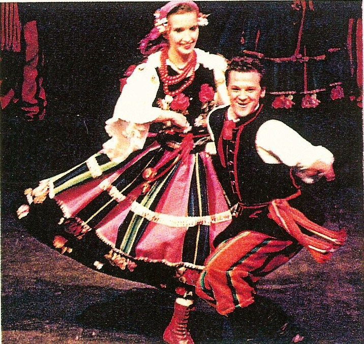 The Oberek from Lowicz - The Lublin Polish Song and Dance Ensemble, choreography by Staś Kmieć - Mr. Kmiec's ensemble: author Stas' Kmiec'